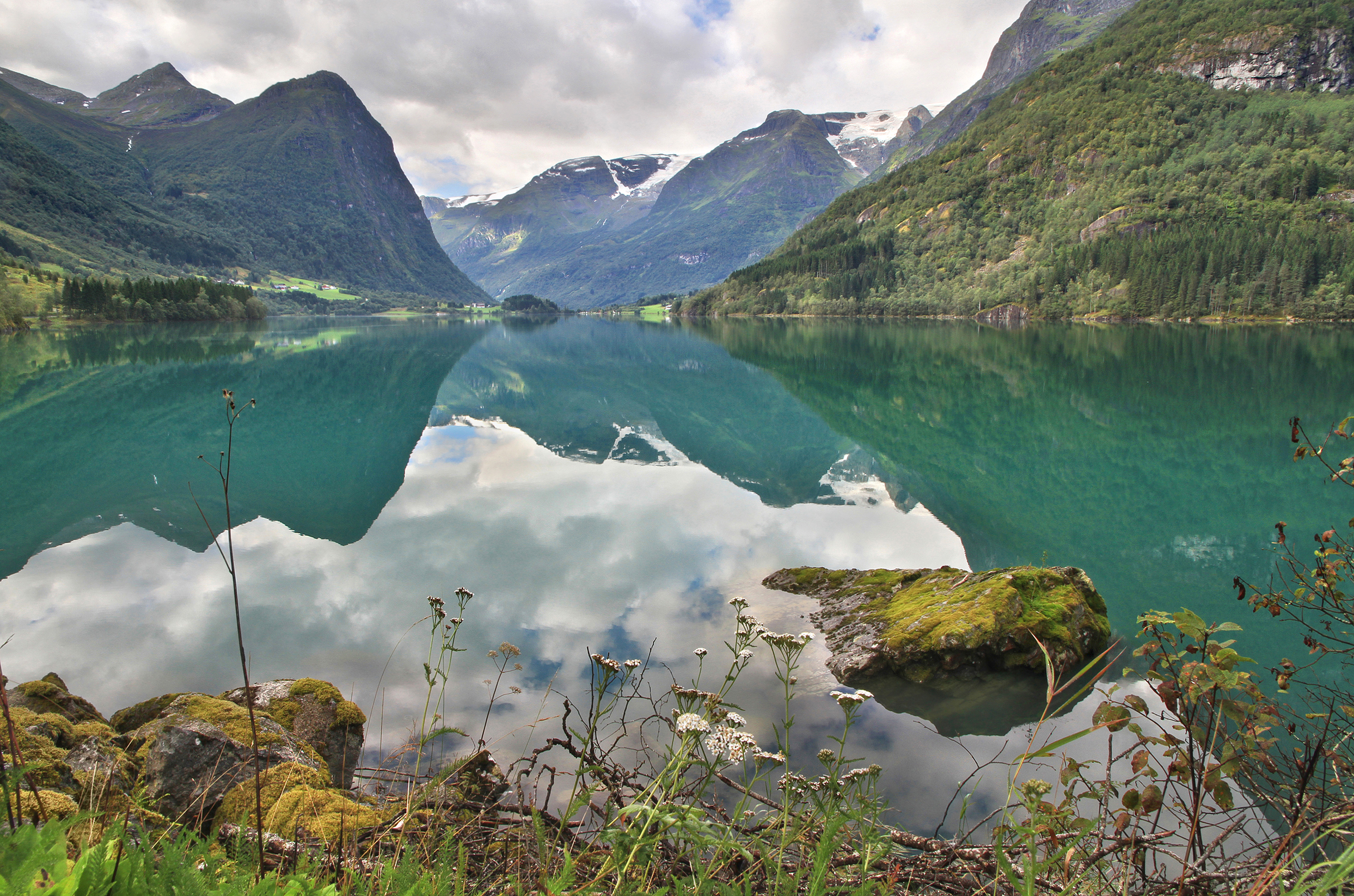 The northern part of Oldevatnet (lake) in Oldedalen in 2011 August.